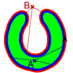 Differential proof of the Jordan curve theorem